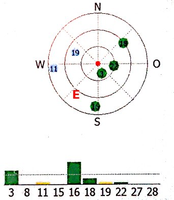 Typical GPS receiver diagram showing received satellites. "E" is the position of an EGNOS-satellite.